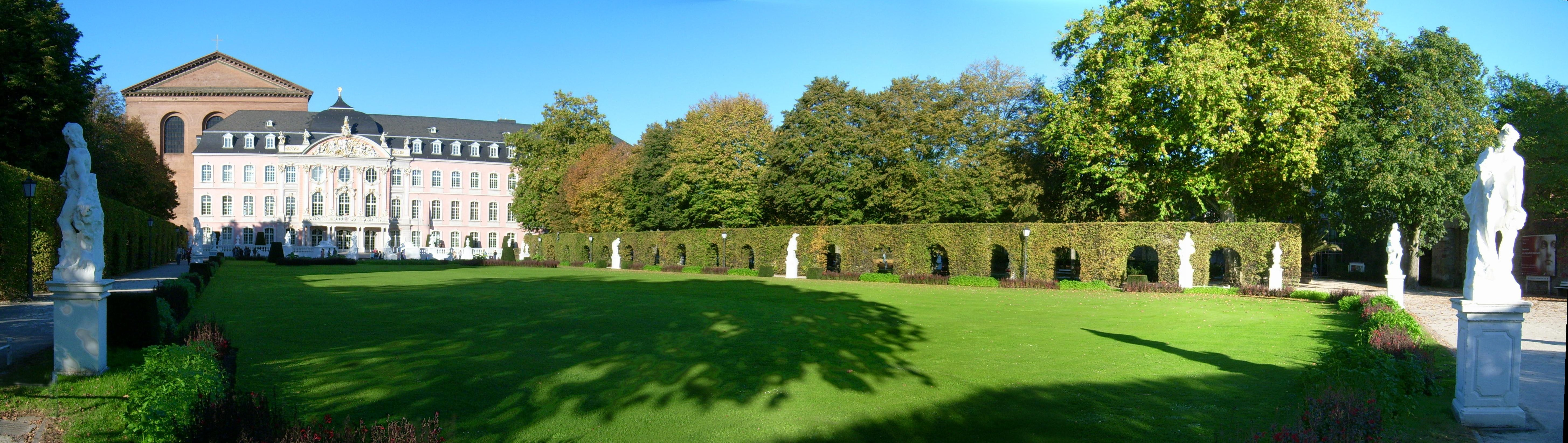 Palace of the Prince-Elector and Constantine Basilica in Trier